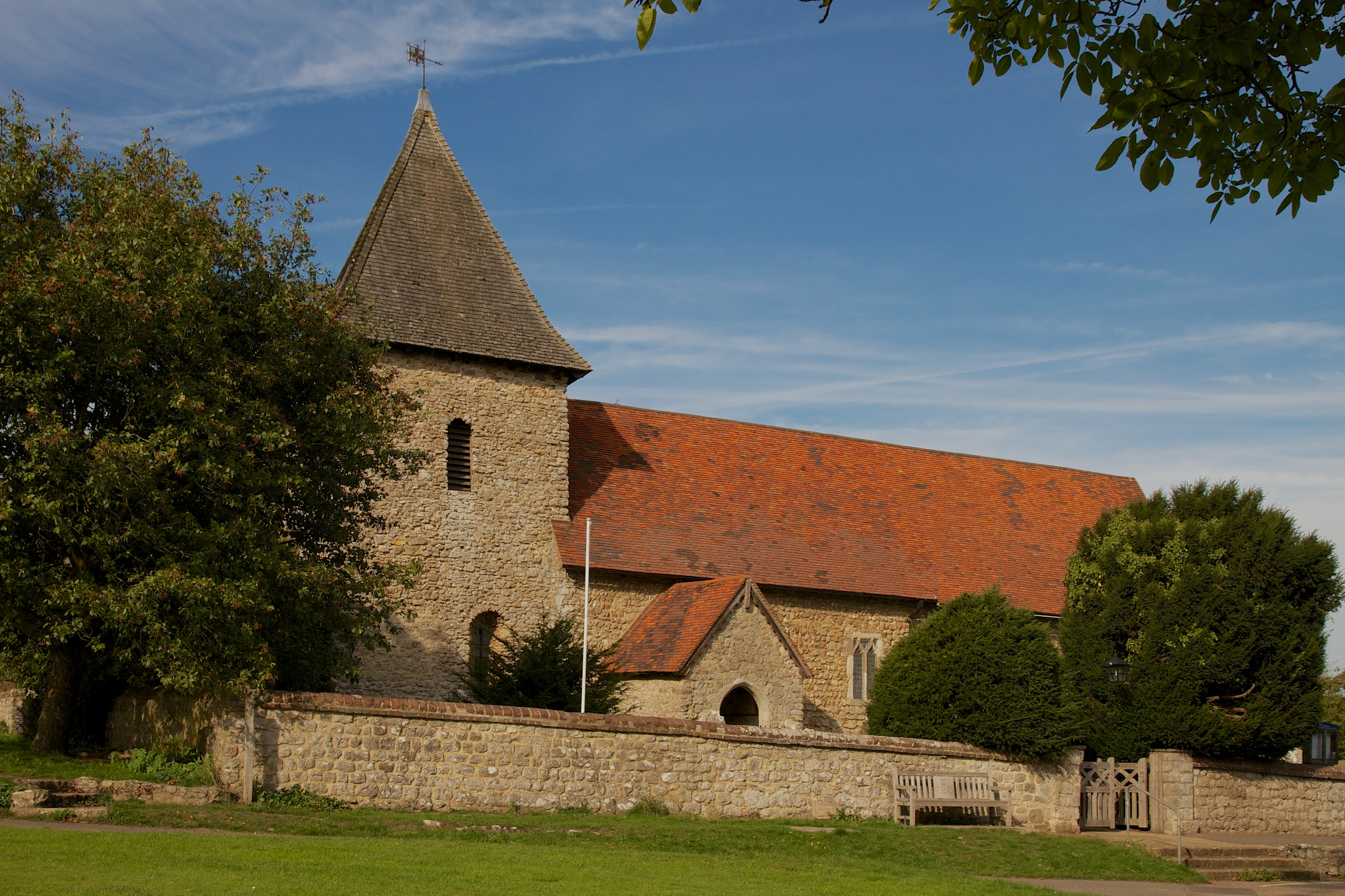 St Dunstan's parish church, West Peckham, Kent, seen from the south